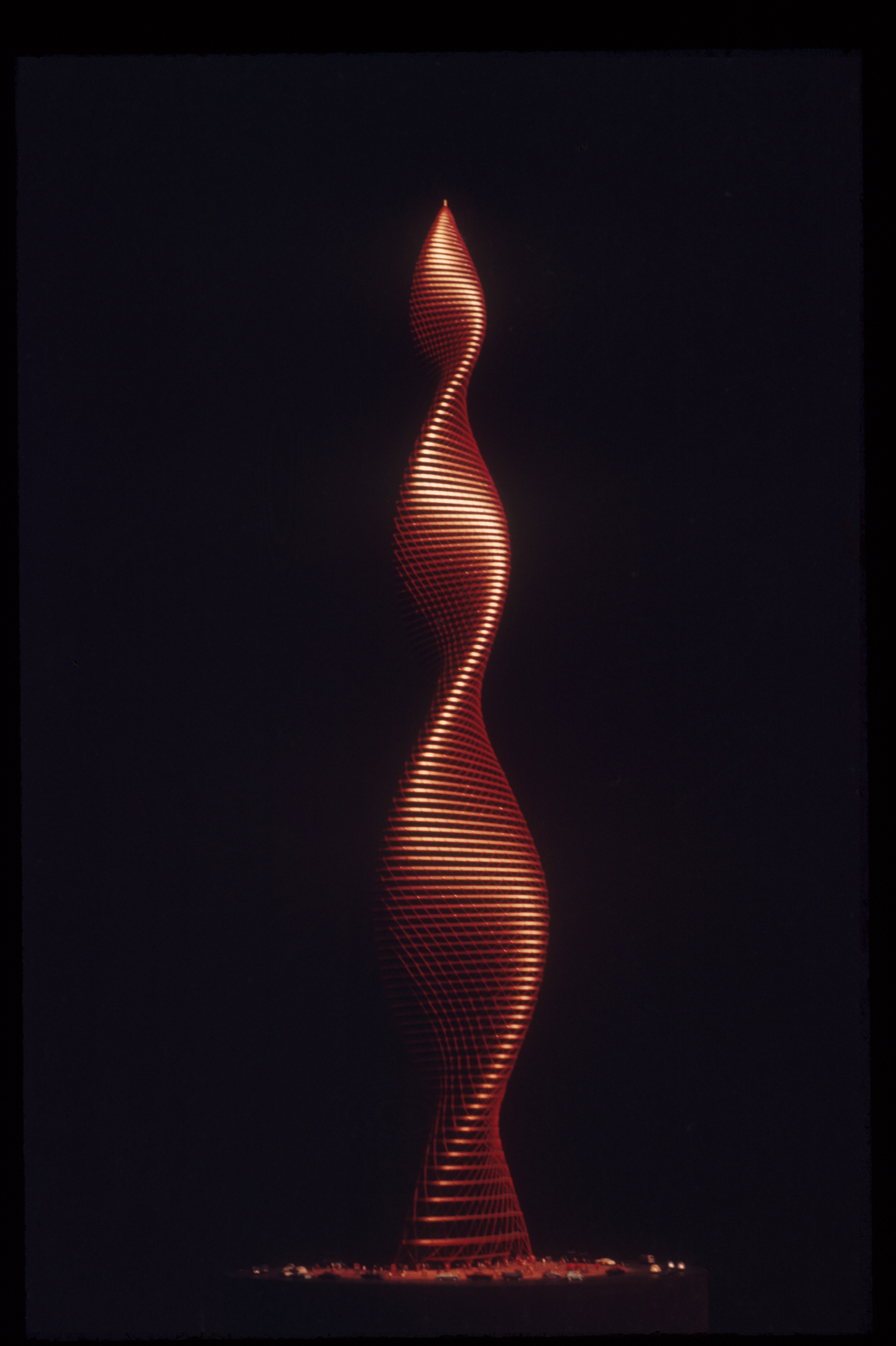 Photography by Conrad Roland of an architecture model done by Conrad Roland of a design by Conrad Roland of a 440 meter highrise building. The photograph was taken from the catalog Das Architekturmodell. Werkzeug, Fetisch, kleine Utopie by Deutsches Architekturmuseum (2012) with the permission of Conrad Roland and the Deutsches Architekturmuseum